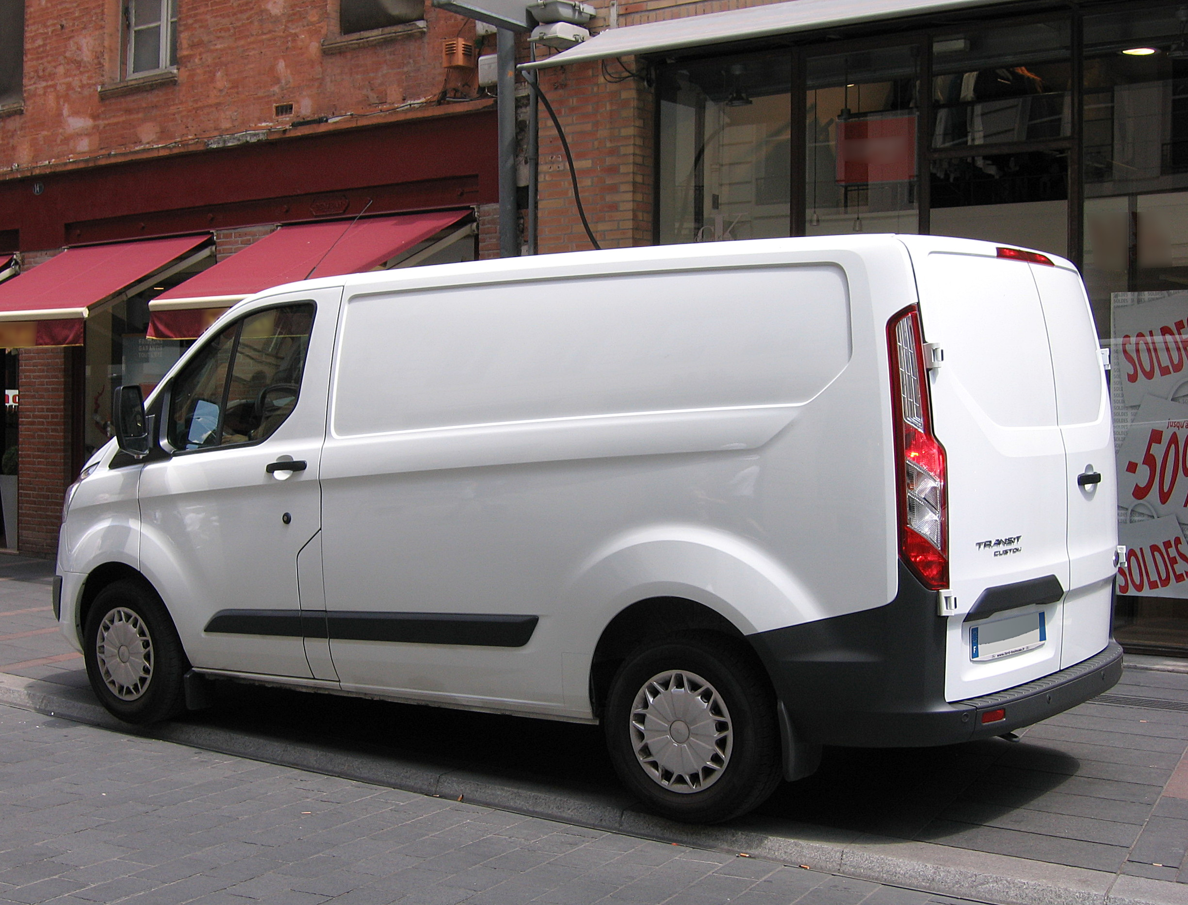 2014 Ford Transit Custom.